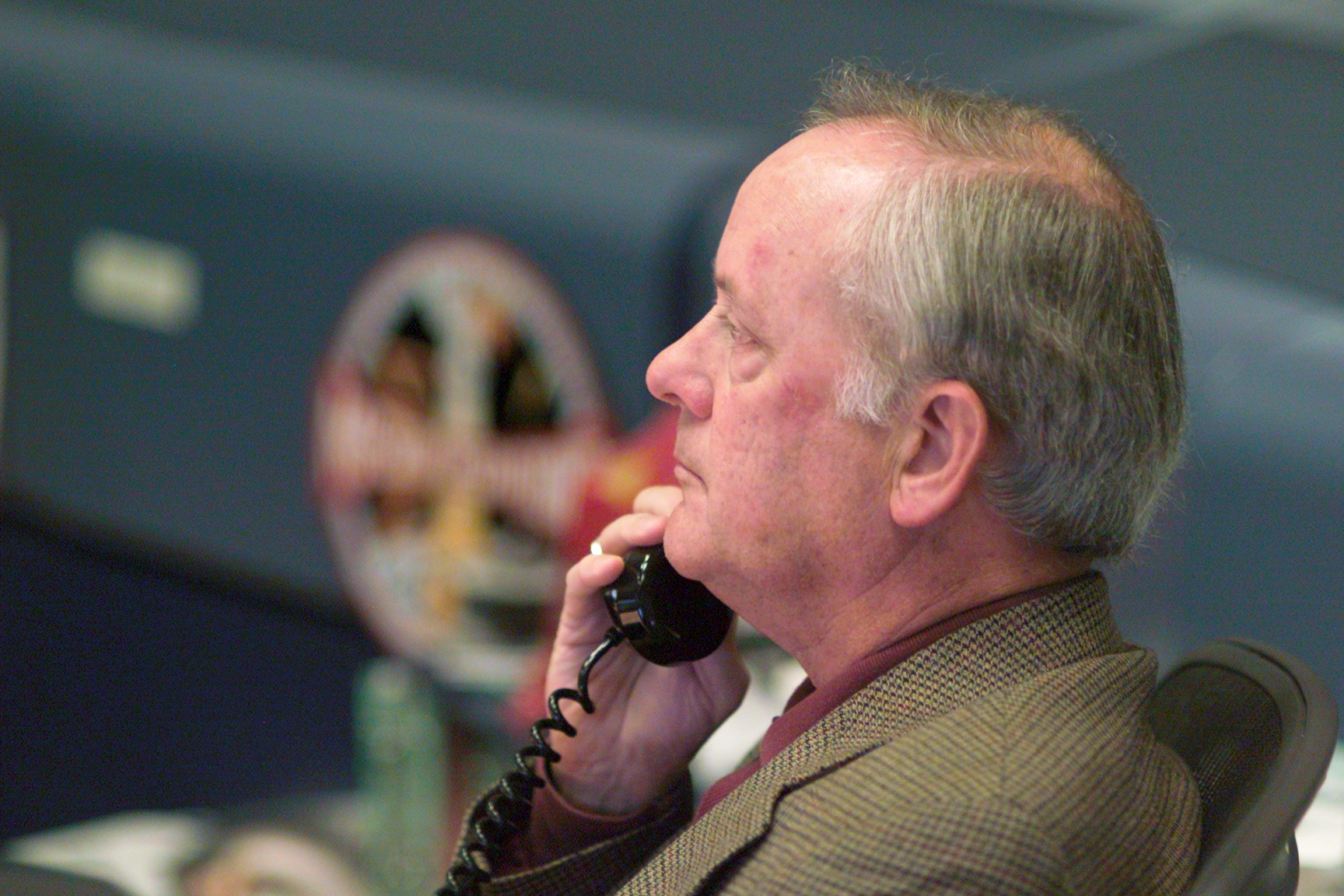 Milt Heflin, Chief of the Flight Director Office, monitors data in the Station (Blue) Flight Control Room in Houston's Mission Control Center (MCC) during launch activities of the Soyuz TMA-5 spacecraft in Baikonur Cosmodrome in Kazakhstan. The Soyuz spacecraft, which carried astronaut Leroy Chiao, Expedition 10 commander and NASA ISS science officer; cosmonaut Salizhan S. Sharipov, Russia's Federal Space Agency flight engineer and Soyuz commander; and Russian Space Forces cosmonaut Yuri Shargin to the International Space Station (ISS), launched October 14, 2004 and docked with the Station on October 16.